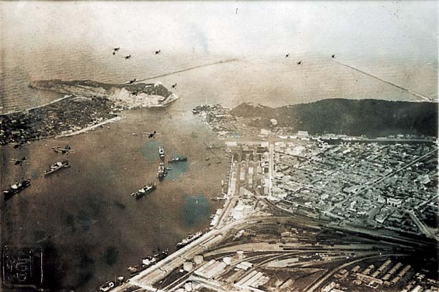 Takao port 1938